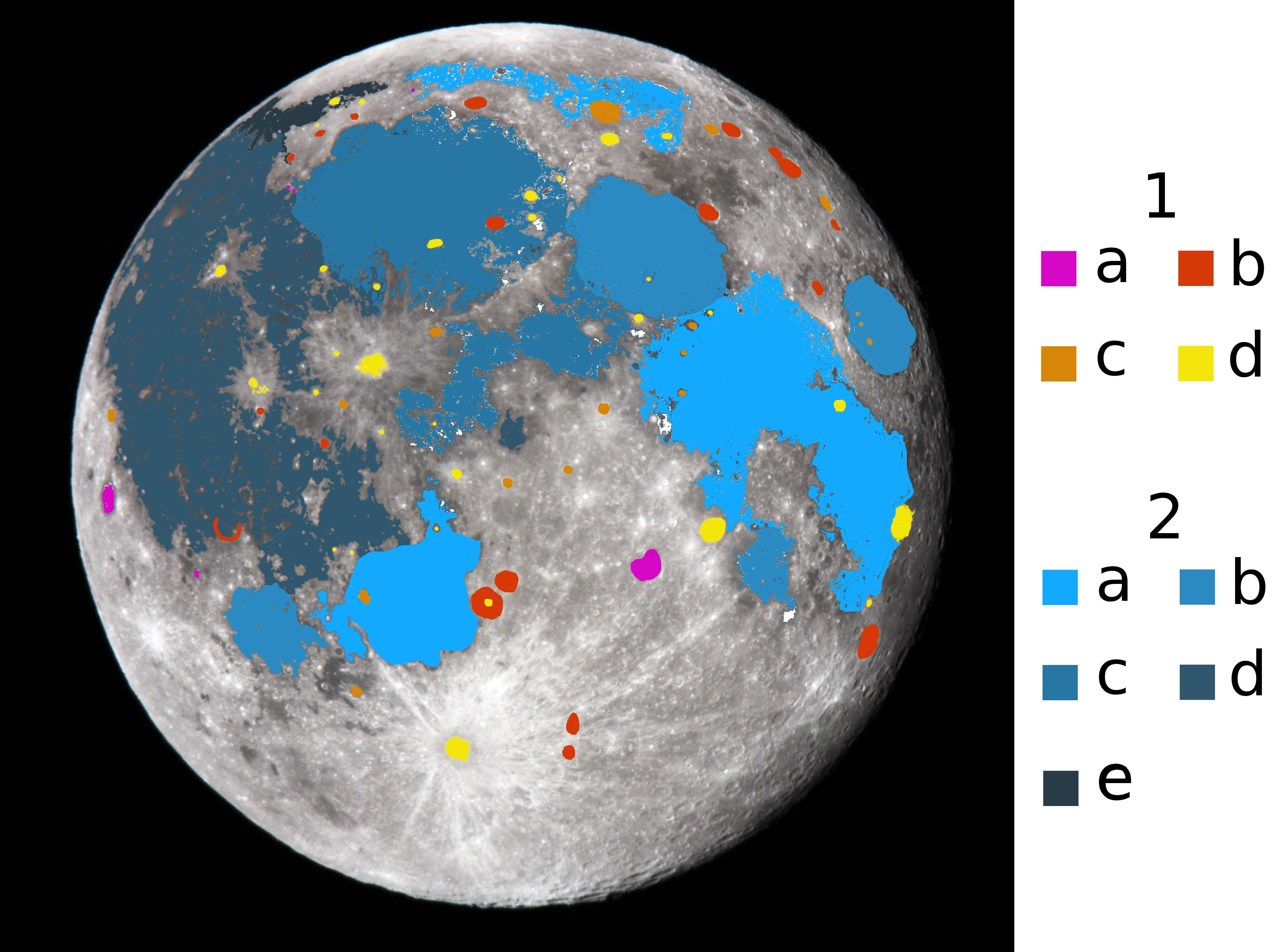 Full Moon in Japan. Indication of age areas on near side Moon. 1 - age of craters (1a - Nectarian period, 1b - Imbrian period, 1c - Eratosthenian period, 1d - Copernican period), 2 - age of maries (2a - Pre-Nectarian period, 2b - Nectarian period, 2c - Early Imbrian, 2d - Late Imbrian, 2e - Eratosthenian period)